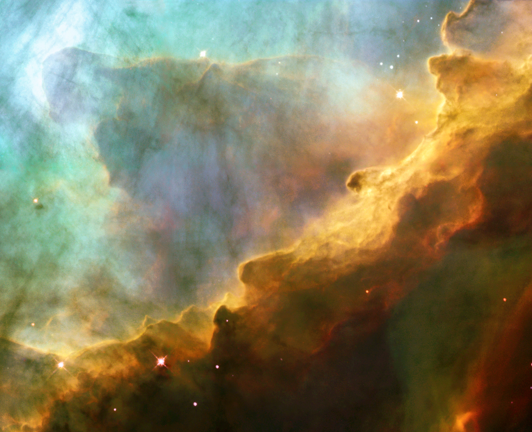 The photograph, taken by NASA's Hubble Space Telescope, captures a small region within M17, a hotbed of star formation. M17, also known as the Omega or Swan Nebula, is located about 5500 light-years away in the constellation Sagittarius. The wave-like patterns of gas have been sculpted and illuminated by a torrent of ultraviolet radiation from young, massive stars, which lie outside the picture to the upper left. The glow of these patterns accentuates the three-dimensional structure of the gases. The ultraviolet radiation is carving and heating the surfaces of cold hydrogen gas clouds. The warmed surfaces glow orange and red in this photograph. The intense heat and pressure cause some material to stream away from those surfaces, creating the glowing veil of even hotter greenish gas that masks background structures. The pressure on the tips of the waves may trigger new star formation within them. The image, roughly 3 light-years across, was taken May 29-30, 1999, with the Wide Field Planetary Camera 2. The colors in the image represent various gases. Red represents sulfur; green, hydrogen; and blue, oxygen.